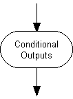 A conditional output box used in ASM charts.